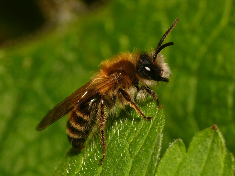 Andrena gravida, male. Location: The Netherlands - Rhenen - Blauwe Kamer